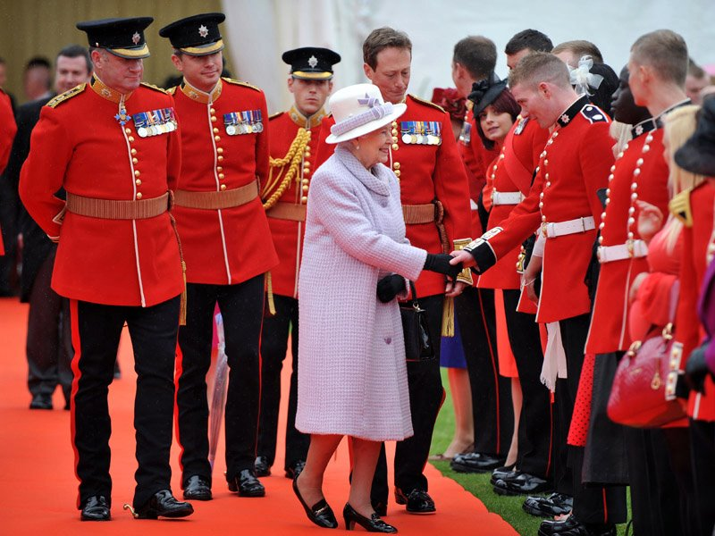 Her Majesty The Queen meeting serving members of the 1st Battalion.